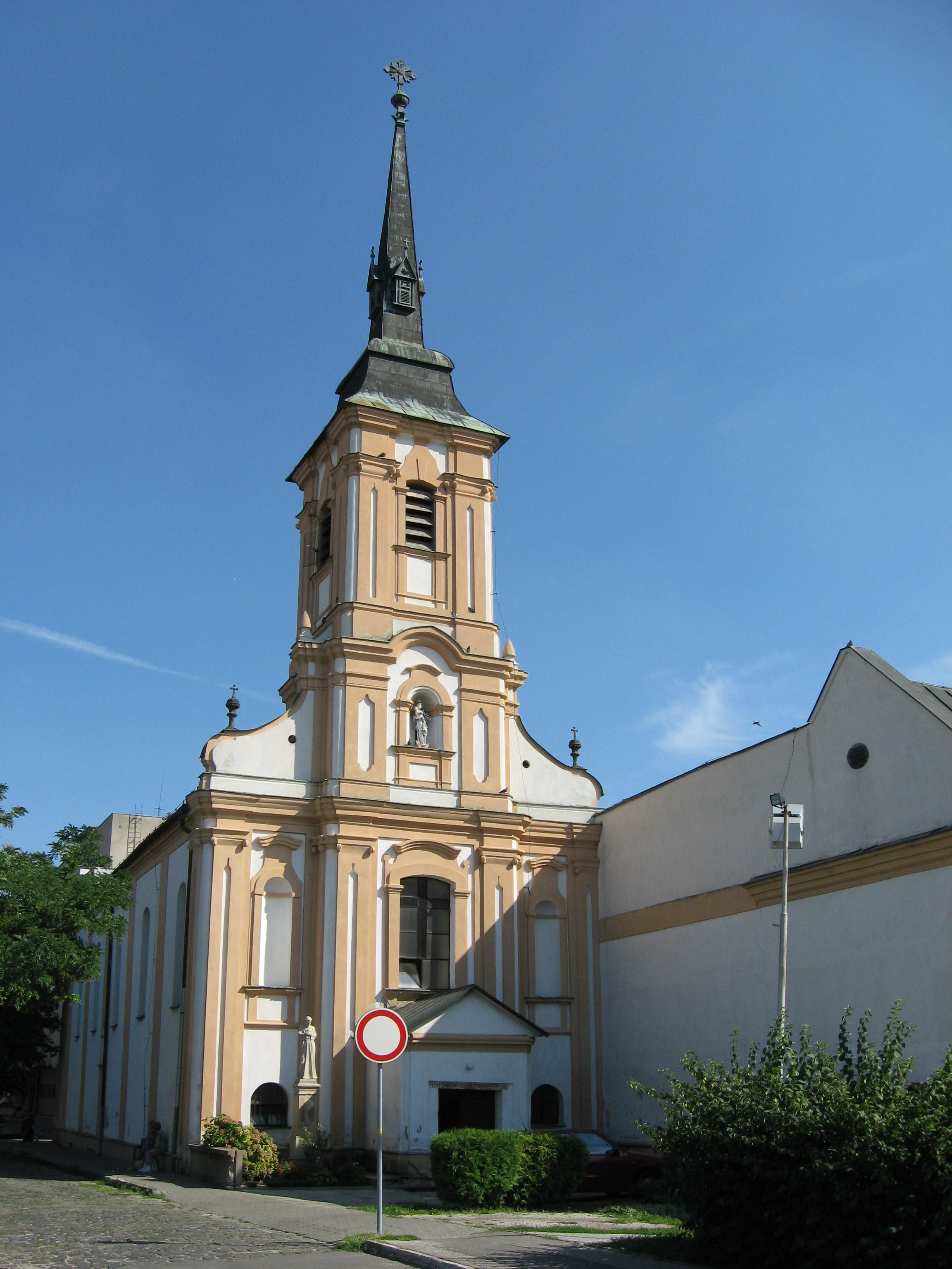 Franciscian Church in Nové Zámky